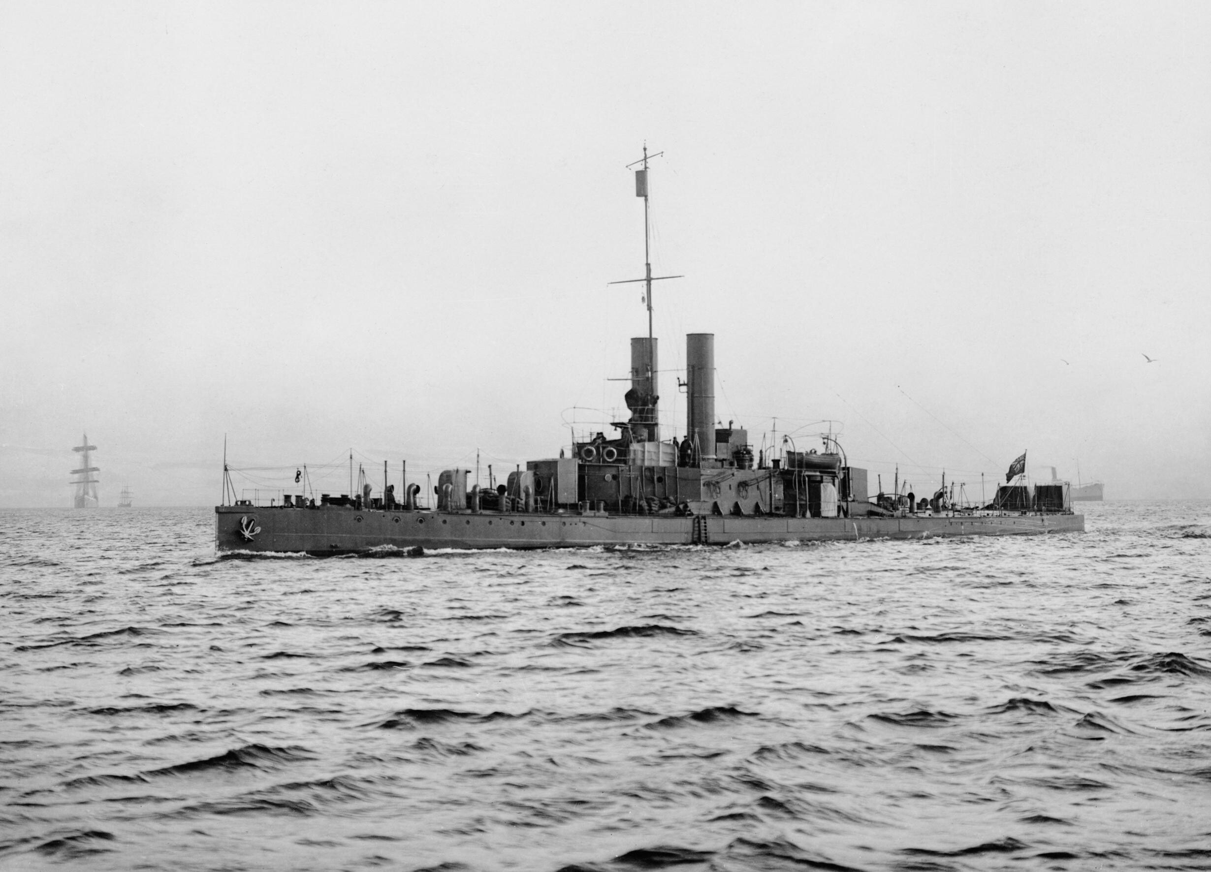 British gunboat HMS COCKCHAFER underway in the company of HMS CRICKET, HMS GLOWWORM AND HMS CICALA.